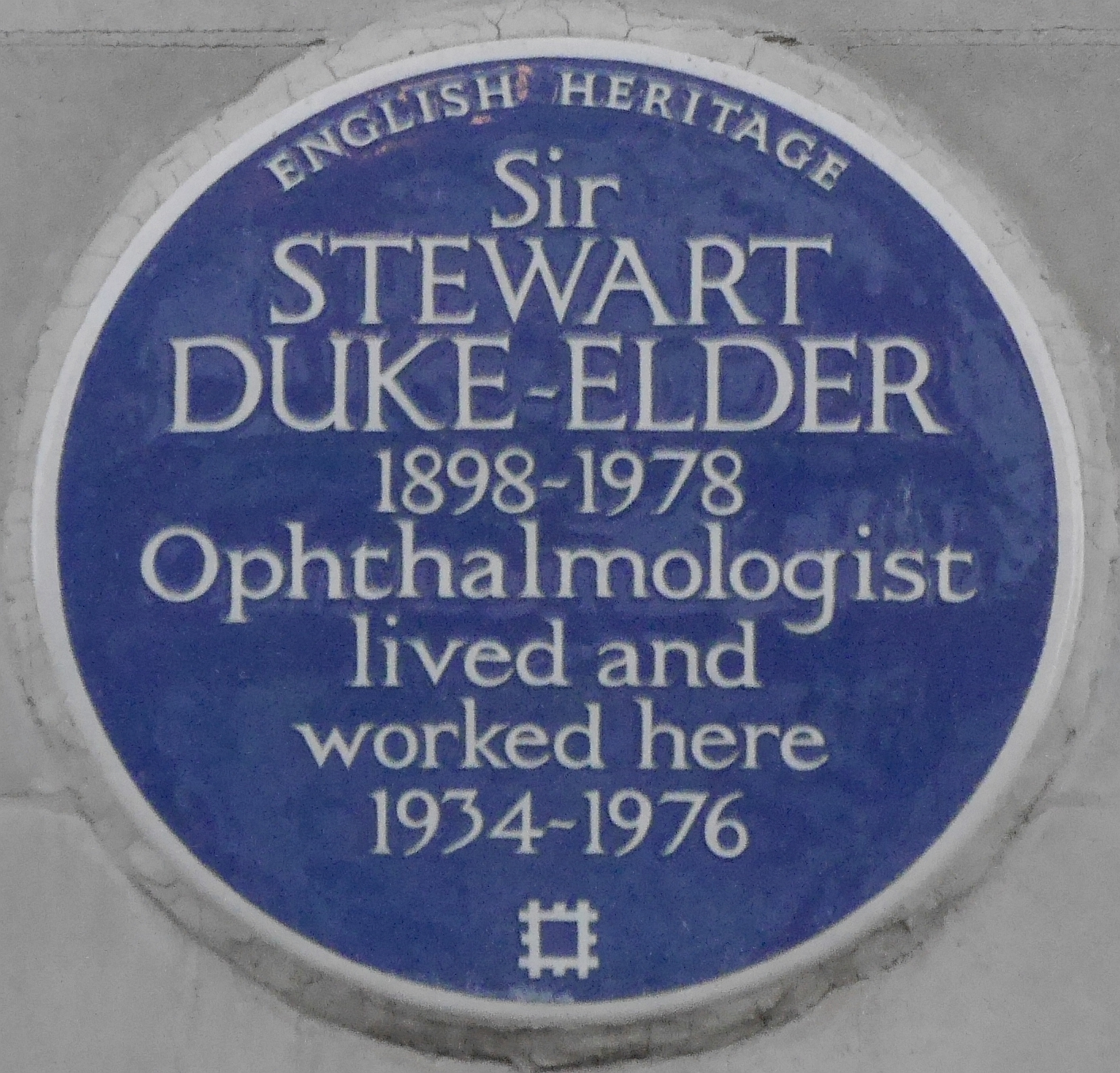 Marie Rambert 19 Campden Hill Gardens blue plaque